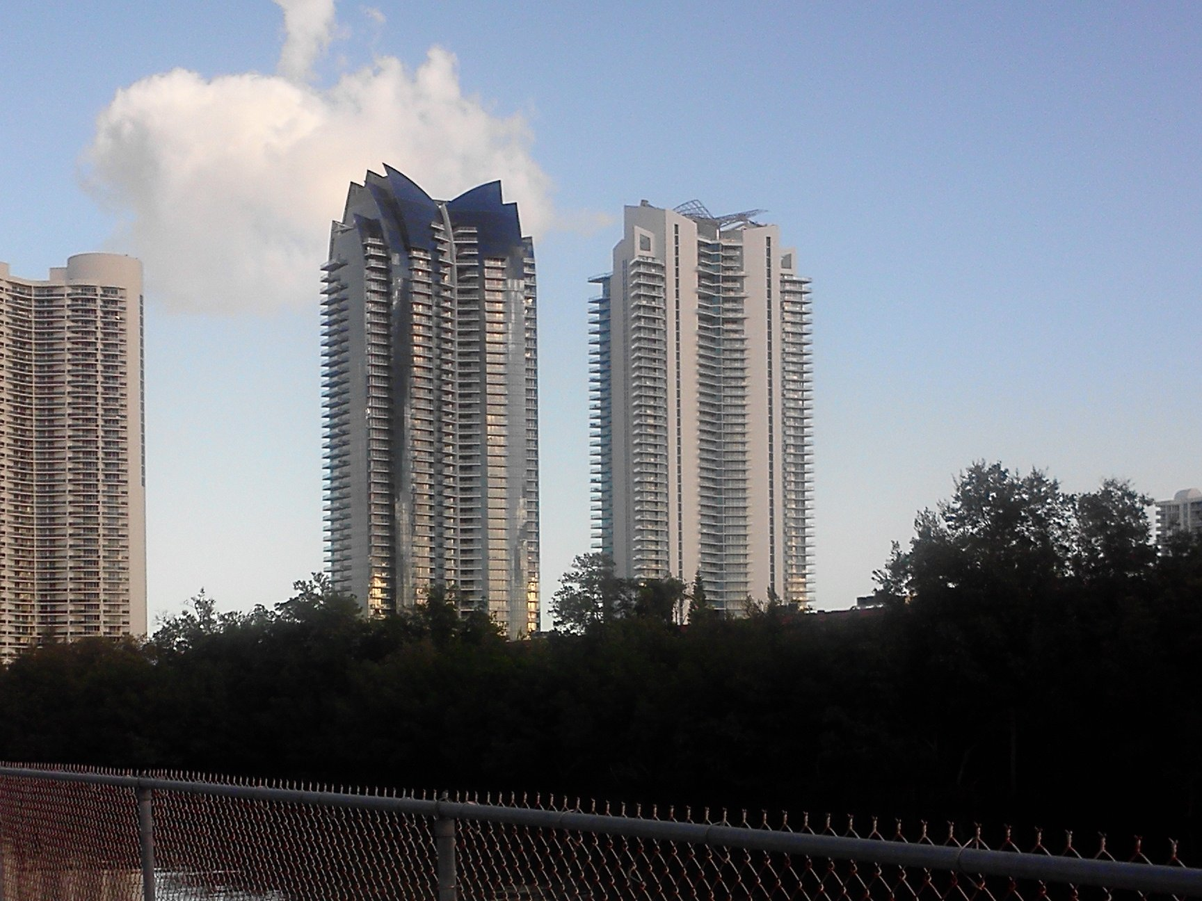 Jade Ocean and Jade Beach in Sunny Isles Beach, Florida.